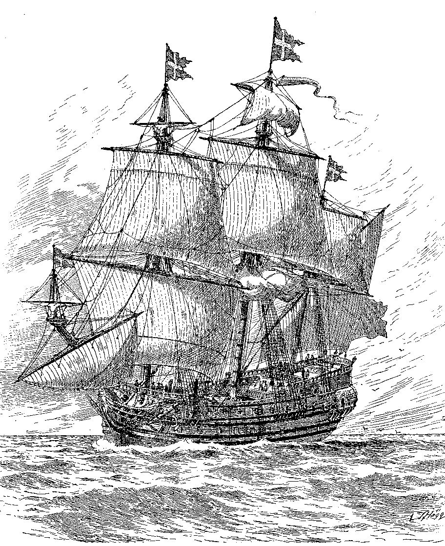 Swedish ship of the line HMS Scepter 1636.